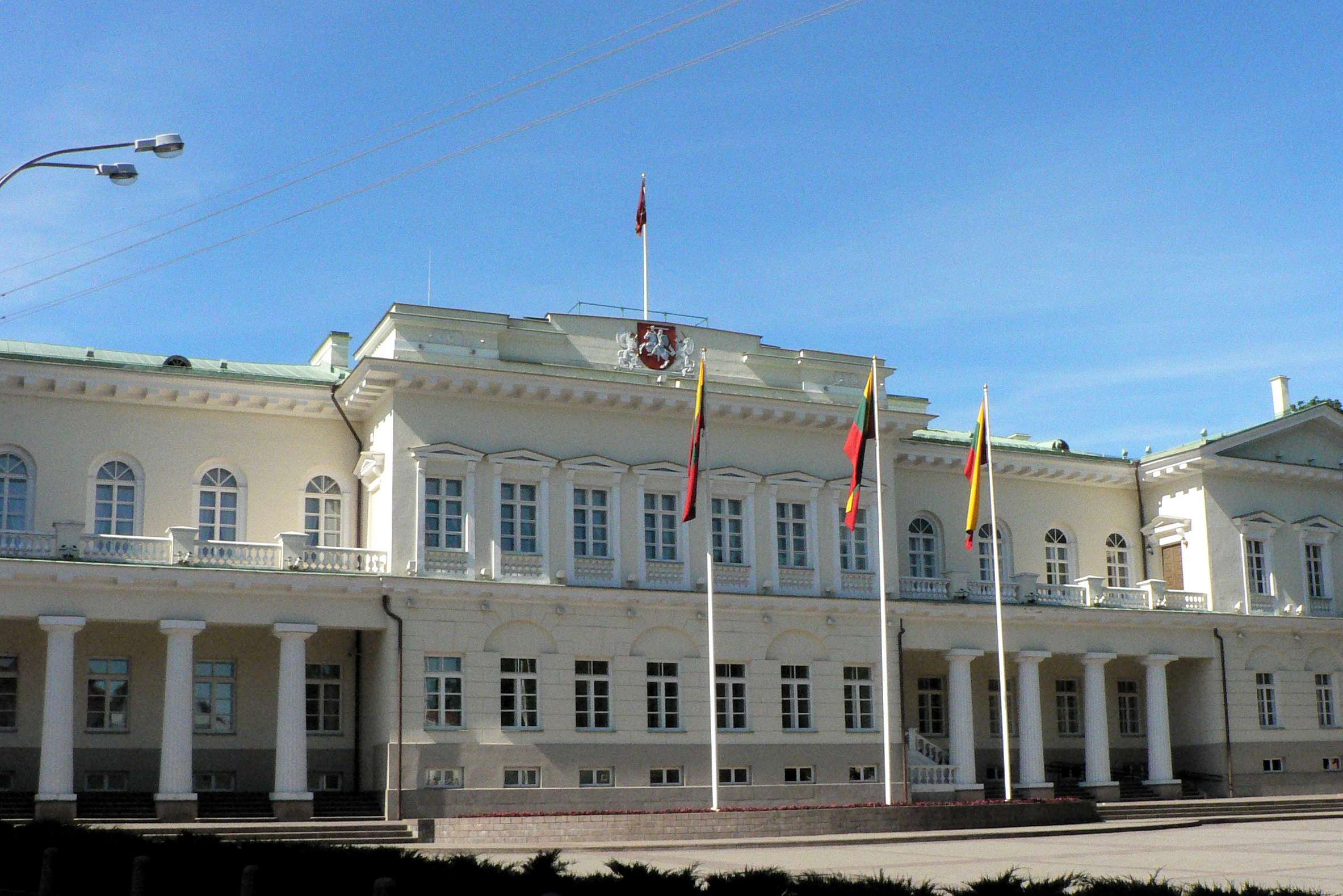 Presidential Palace, Vilnius, Lithuania